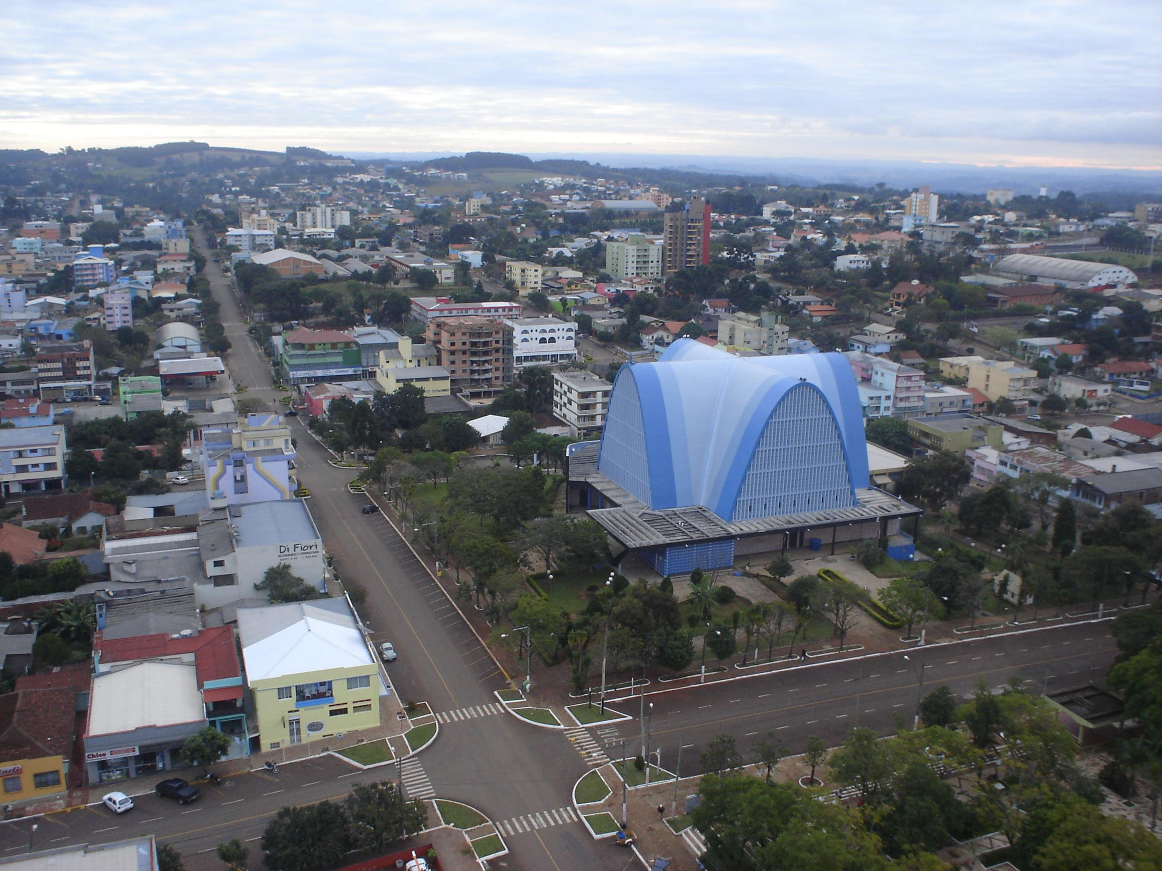 Church in São Miguel do Oeste